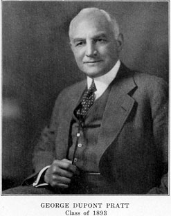 Photo of George Dupont Pratt (1869-1935)